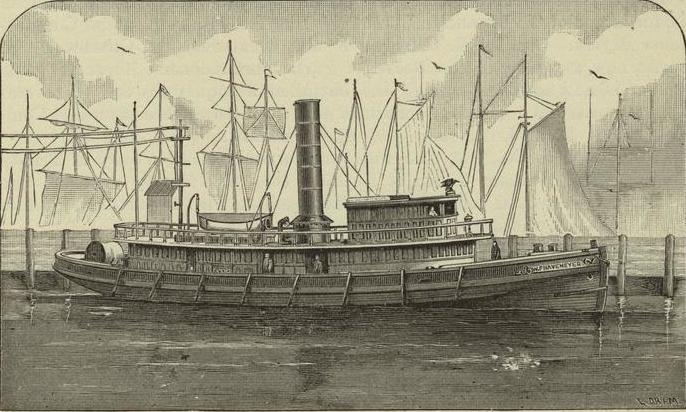 Fire-boat William F. Havemeyer